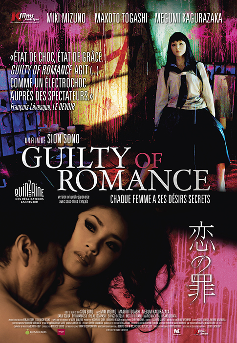 Poster of the movie Guilty of Romance (Q873346)